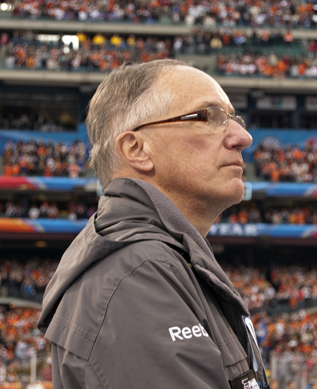 Mike "Doc" Emrick at Citizens Bank Park in Philadelphia as he was about to broadcast the 2012 NHL Winter Classic between the Philadelphia Flyers and New York Rangers. January 2, 2012